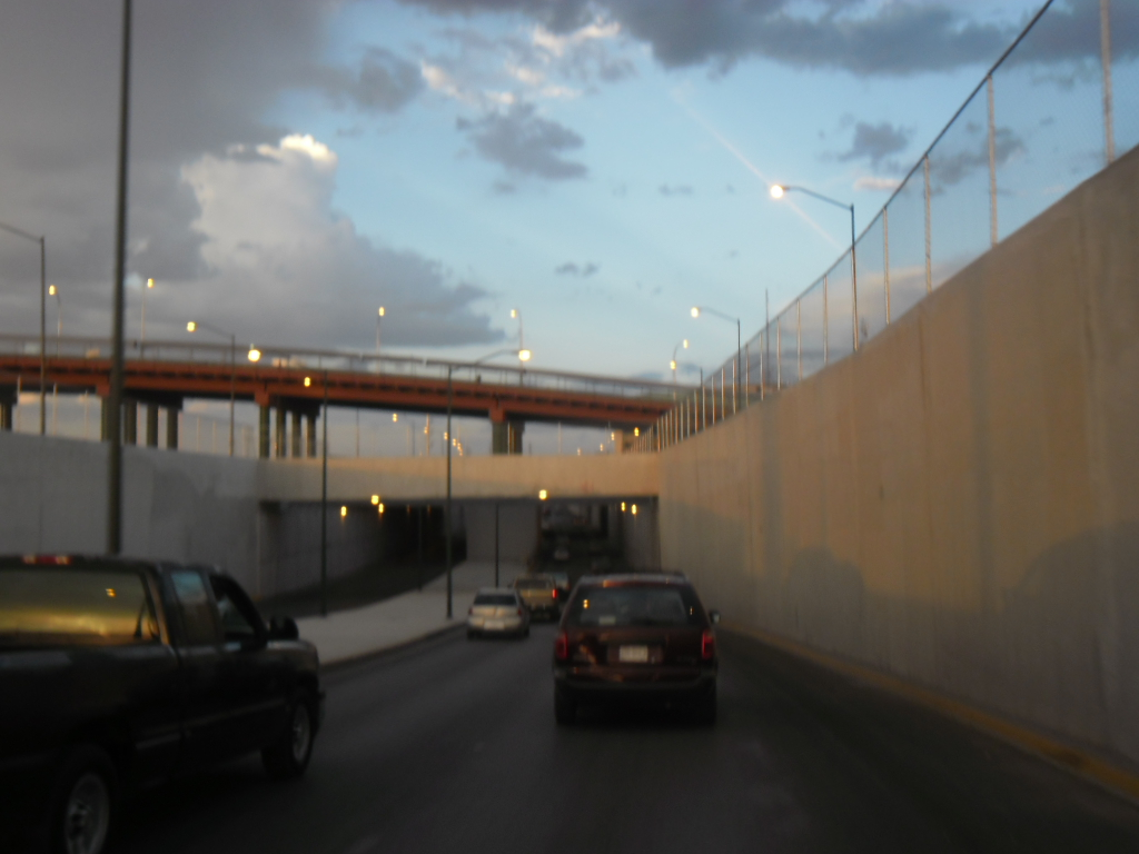 Tunnel